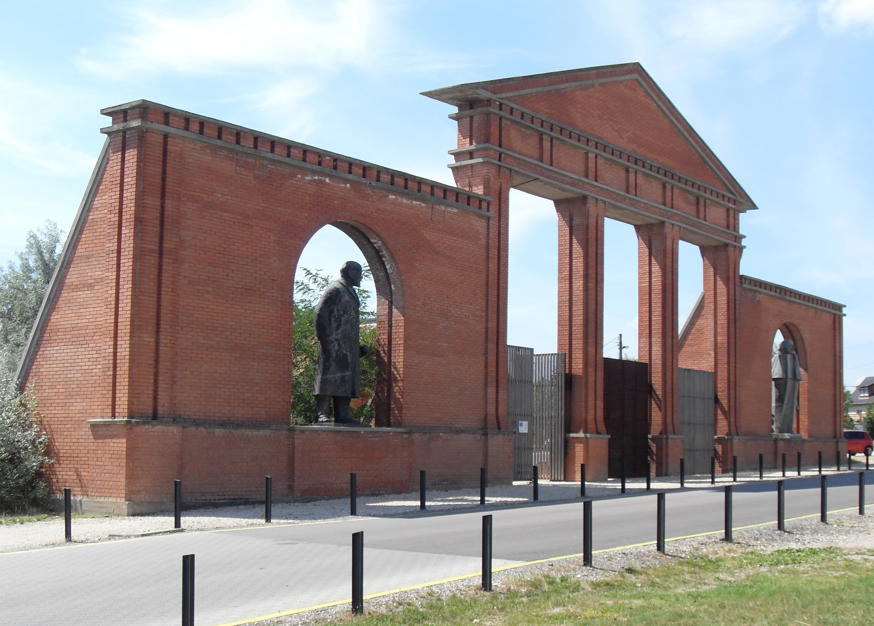 The main entrance to the Memento Park, designed by architect Ákos Eleőd, is shapped in the image of a monumental classicist building. On its left stands a 4 meter high Lenin statue, previously in the Dozsa Gyorgy street, while on its right stands the cubist Karl Marx and Friedrich Engels granit monument which once stood at the main entrance of the communist party head quarters in Budapest, in the central square Jászai Mari tér.